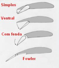 Types of flap